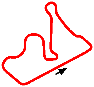 Map of Autódromo de Santa Cruz do Sul, in Goiânia, Brazil. Free to use.